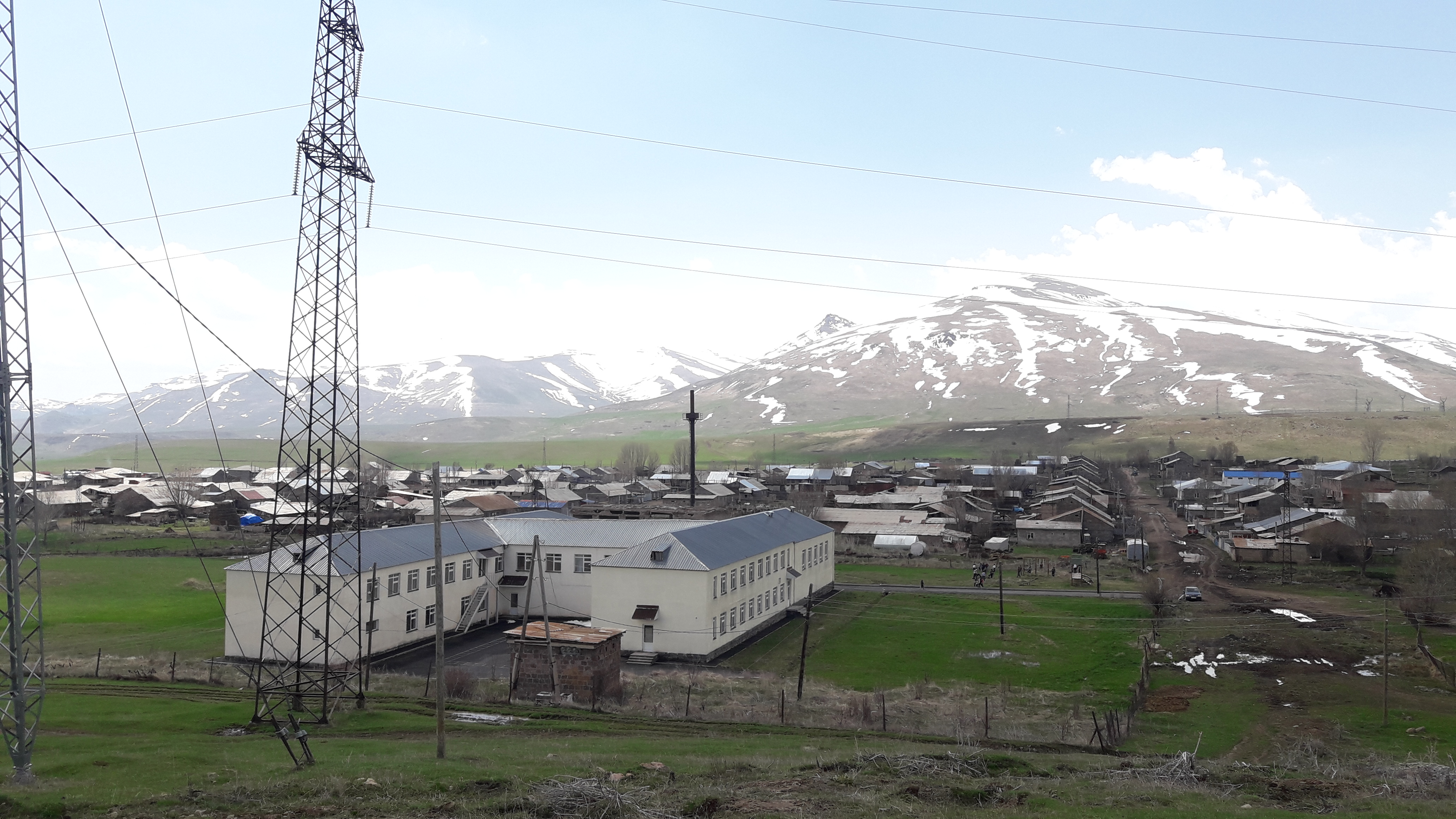 Gorayk (Armenian: Գորայք, also Romanized as Gorayk’; formerly, Bazarchay) is a village and rural community (municipality) in the Syunik Province of Armenia. The National Statistical Service of the Republic of Armenia (ARMSTAT) reported its population as 580 in 2010,[2] down from 632 at the 2001 census.[3] A large reservoir called Spandarian Reservoir lies to the southeast of the village.